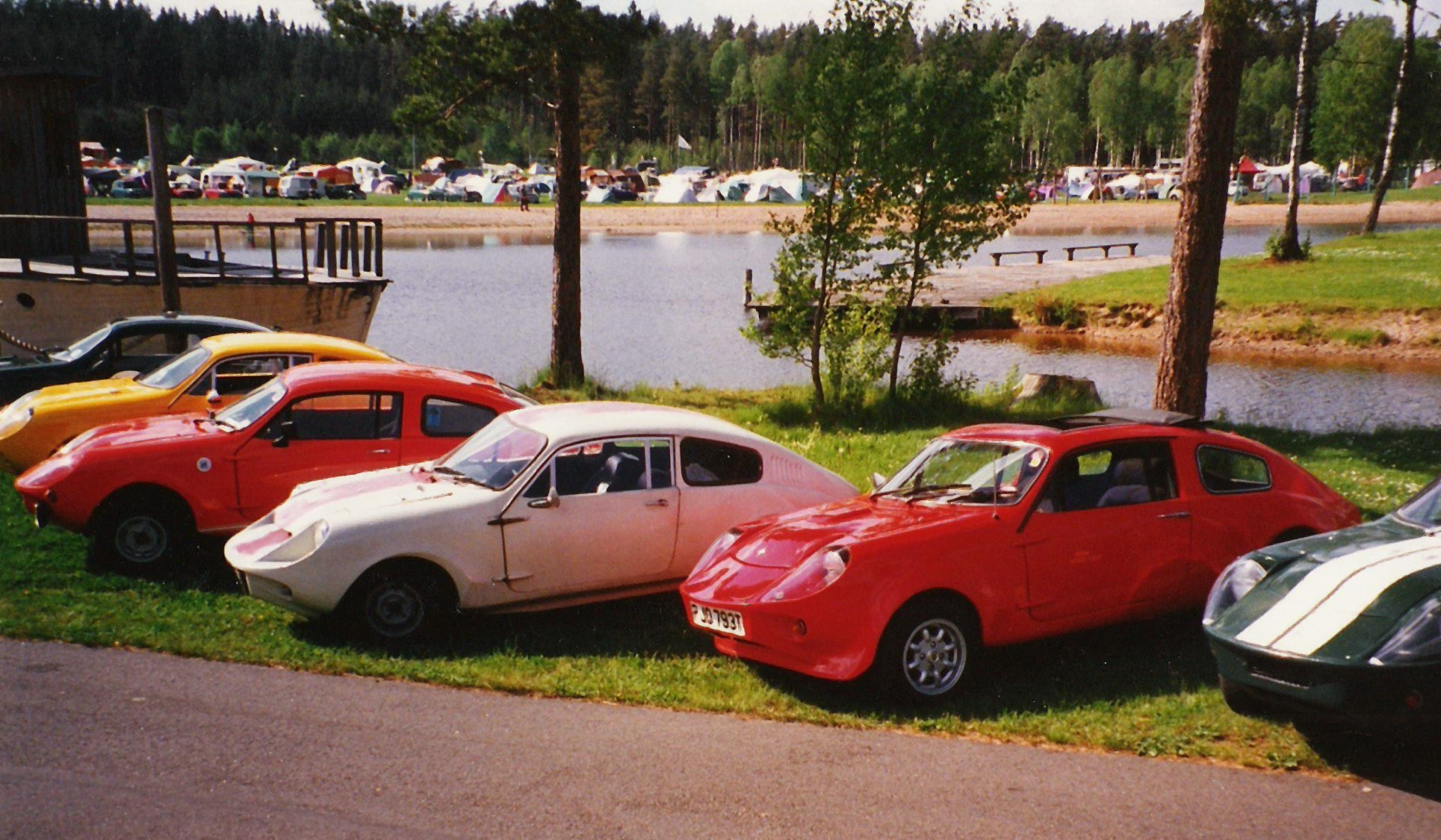 Mini Marcos in Sweden at the 1997 International Mini Meeting.